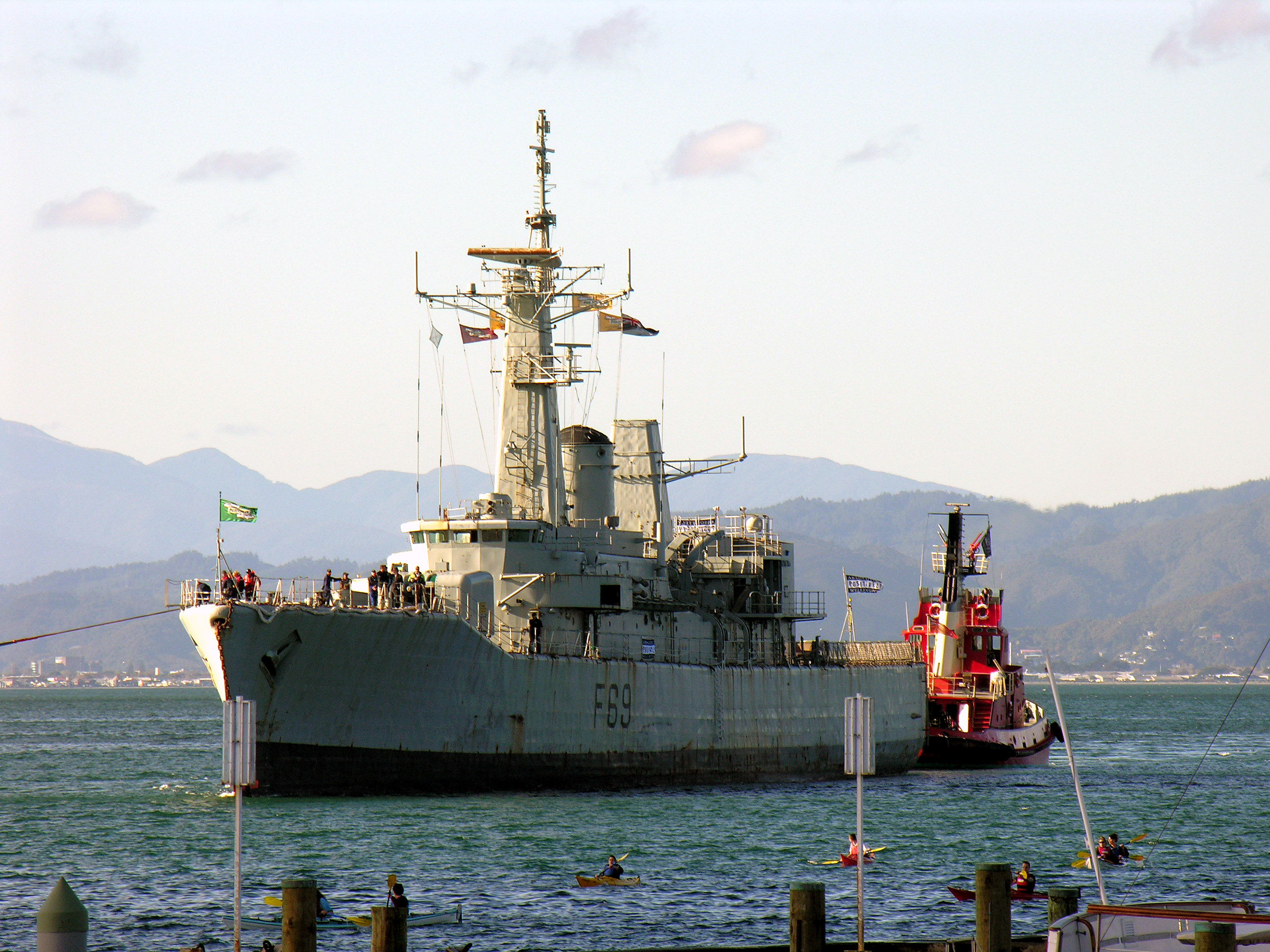 The Wellington arrives in New Zealand May 13, 2005.